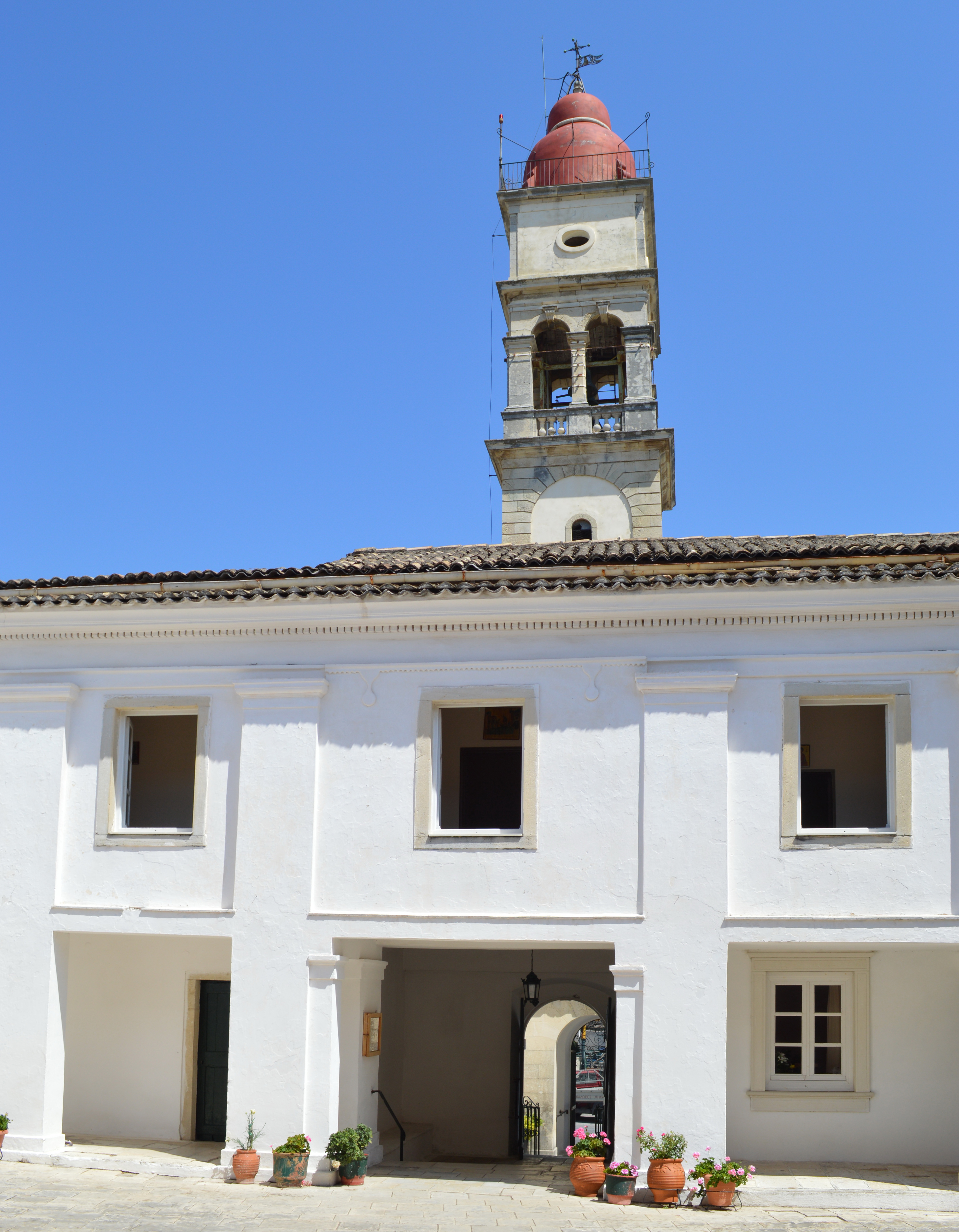 Platitera. Courtyard of the monastery